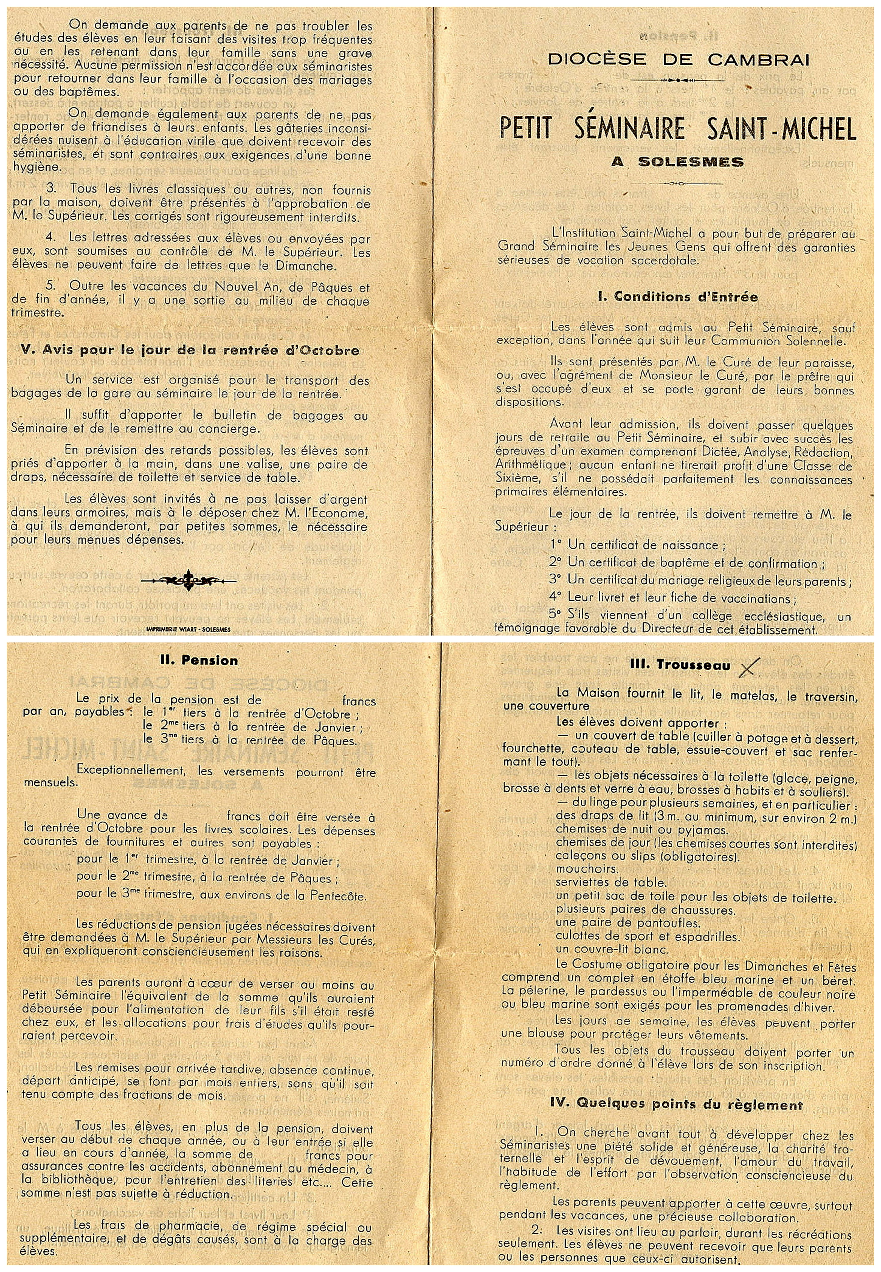 Saint-Michel Official Code of Behaviour (1950)